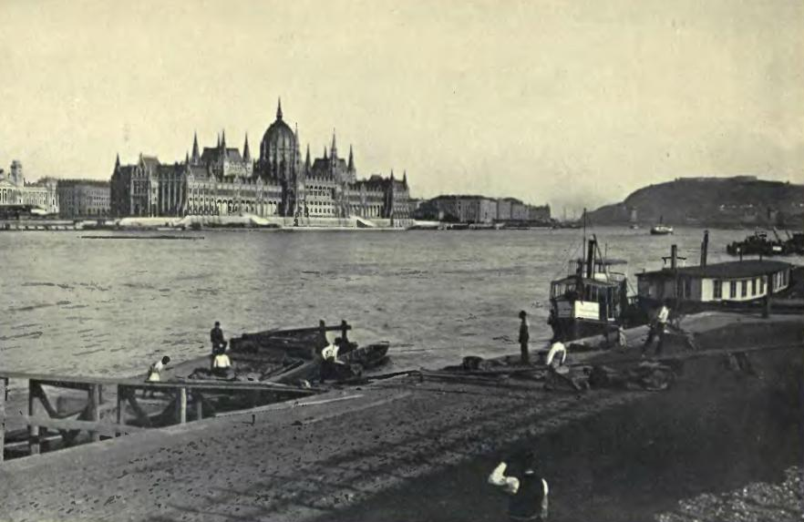 Hungarian Parliament, early XXth century.